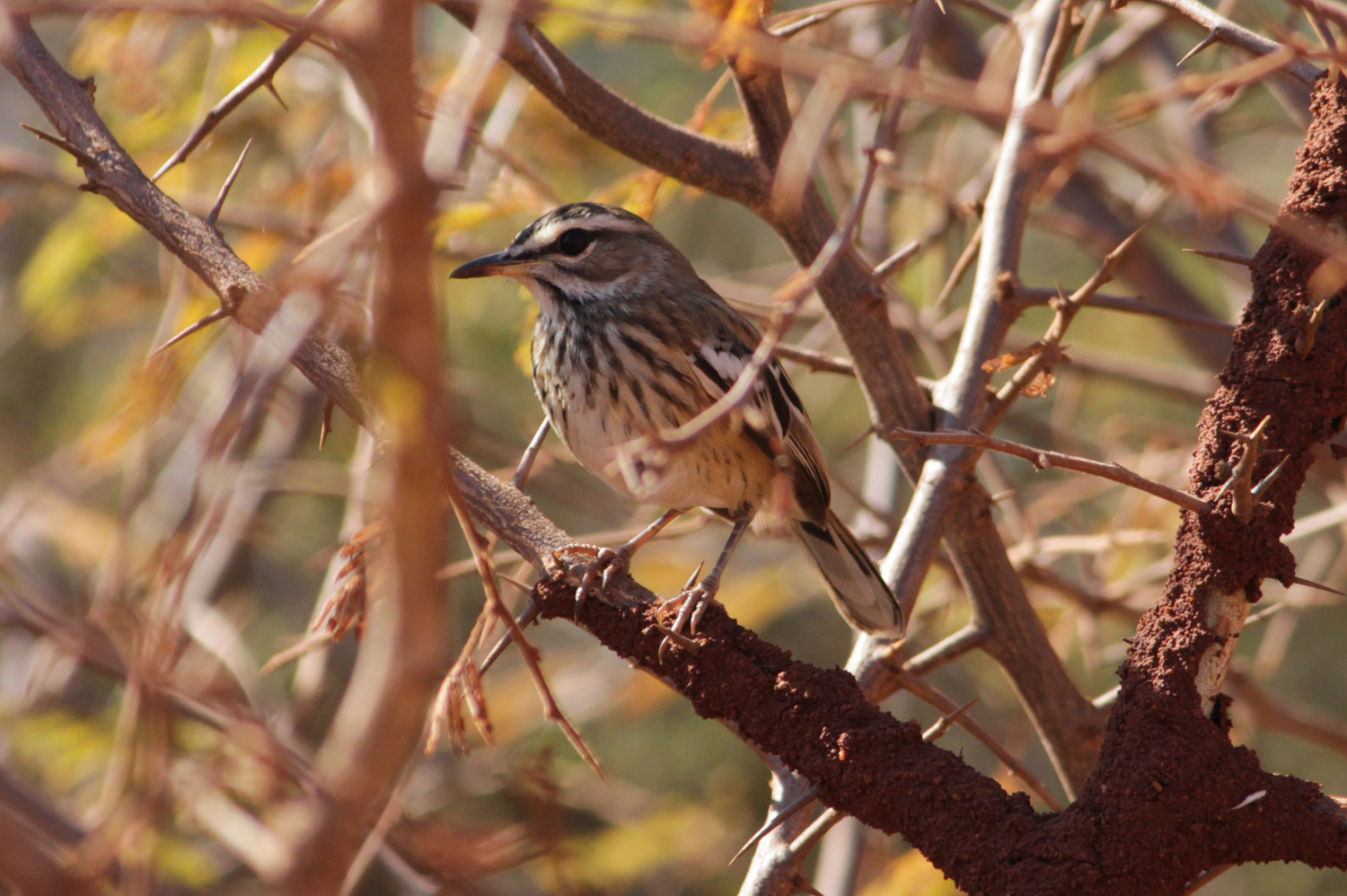 White-browed scrub robin in the Soutpansberg, Limpopo, South Africa. It is visiting the earthen galleries of the termite Odontotermes badius. Termites form an important component of its diet.